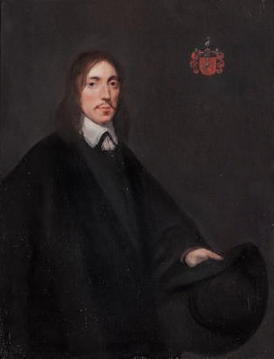 Willem Everwijn (1613-1673) oil on panel 28,5 x 22 cm signed c.r.: GTB inscribed verso: Ae(t)ati(s) Suae 40 / 1653